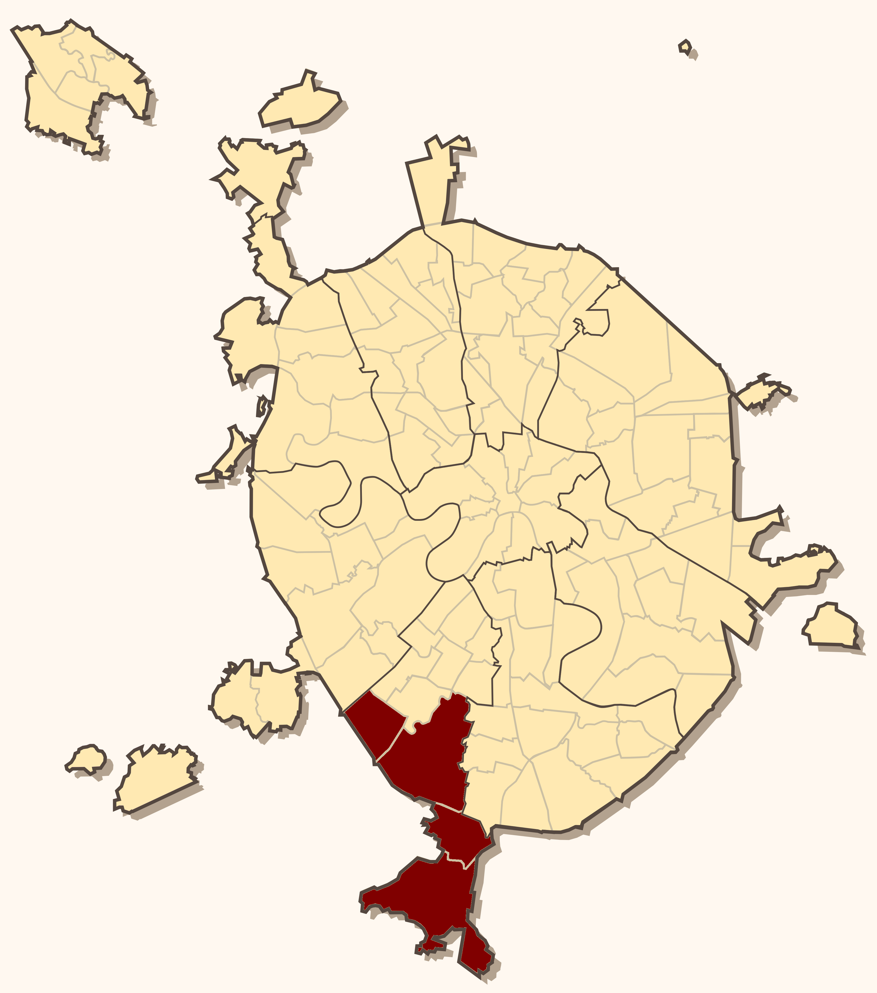 Map of Paraskevo-Pyatnitskoe Blagochinie of Moscow